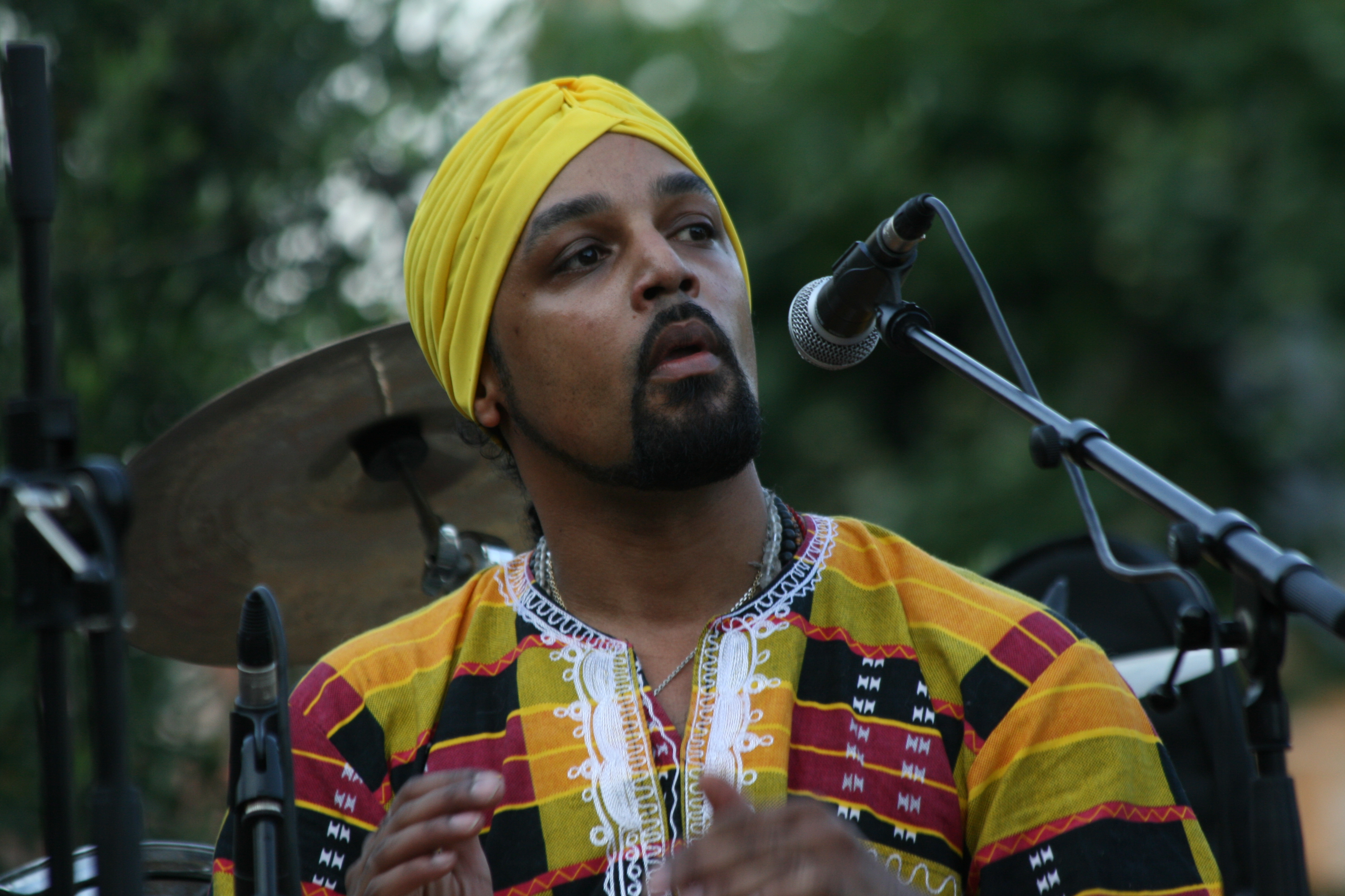 Oxaï Roura performing on stage in 2012